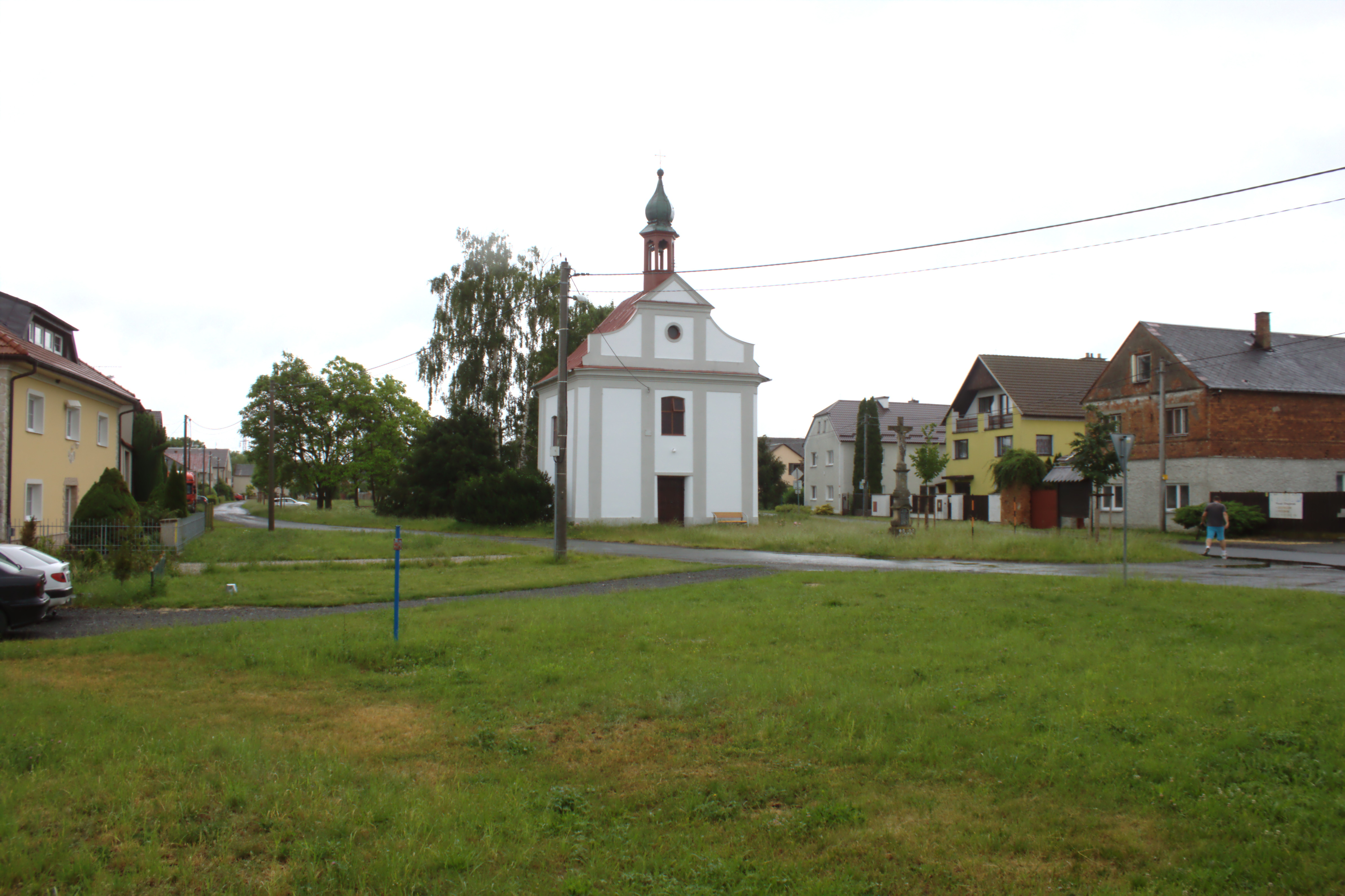 A common in the village of Dětřichov, Olomouc Region, CZ